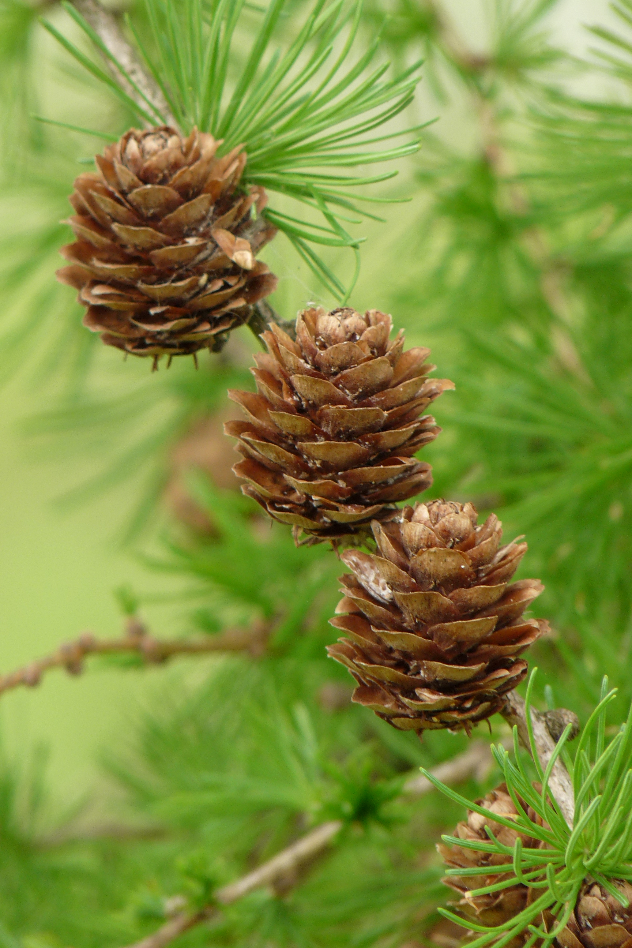 cones of European larch (Larix decidua)